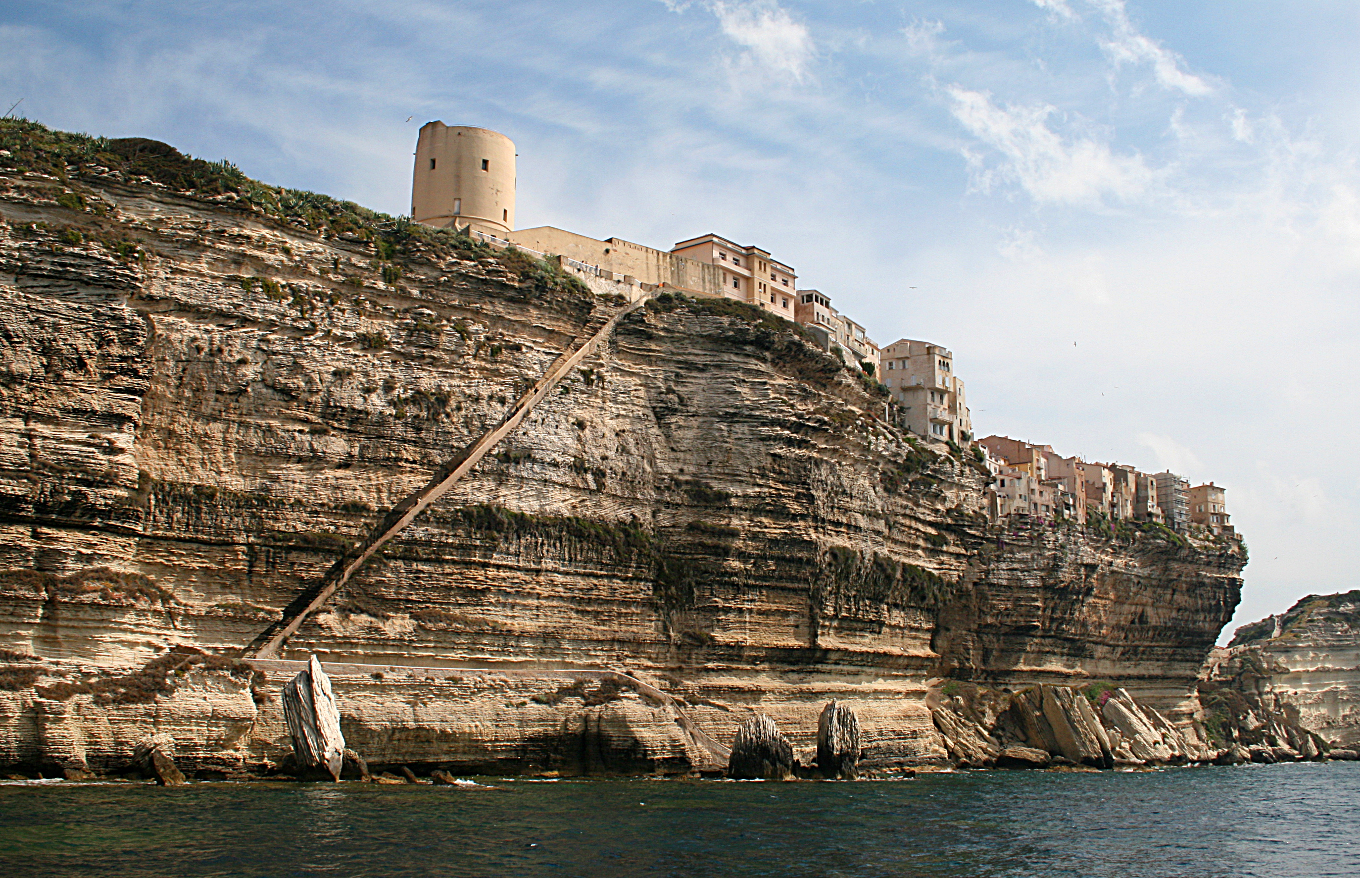 Bonifacio (Corse-du-Sud, France), the cliffs and the the Steps of the King of Aragon.